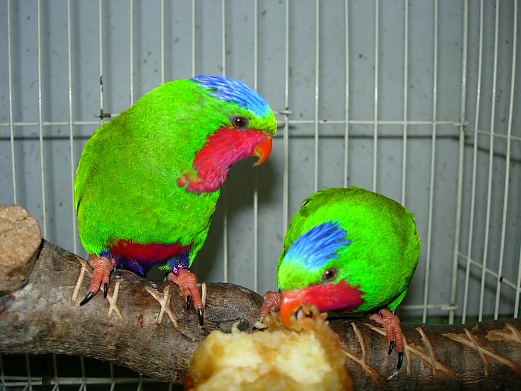 Blue-crowned Lorikeet; two in a cage.